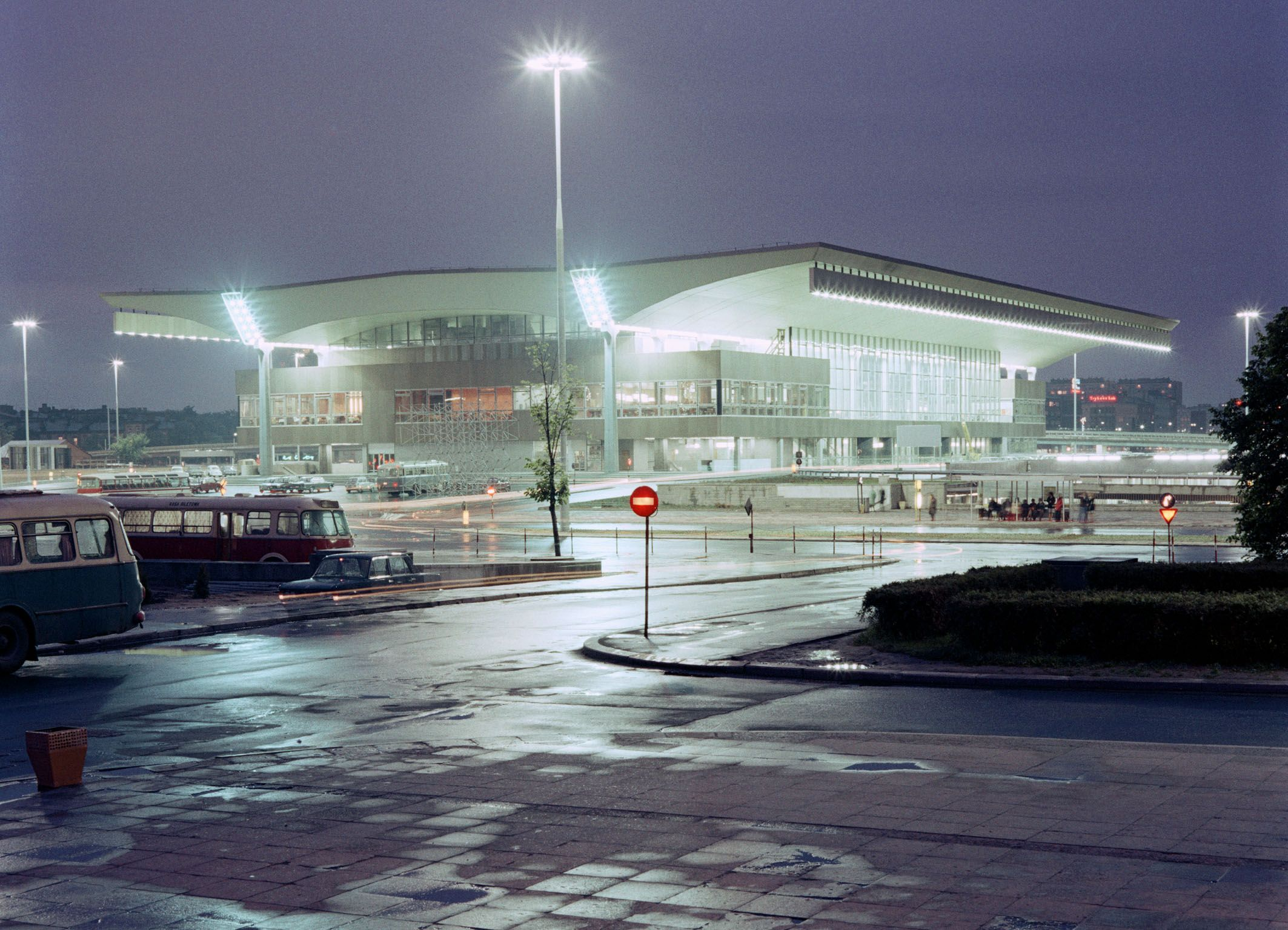 Warszawa Centralna railway station in Poland. Station is full accessible to disabled (and people with heavy luggage) by automatic doors and elevators. Inside also escalators in white marble interiors.